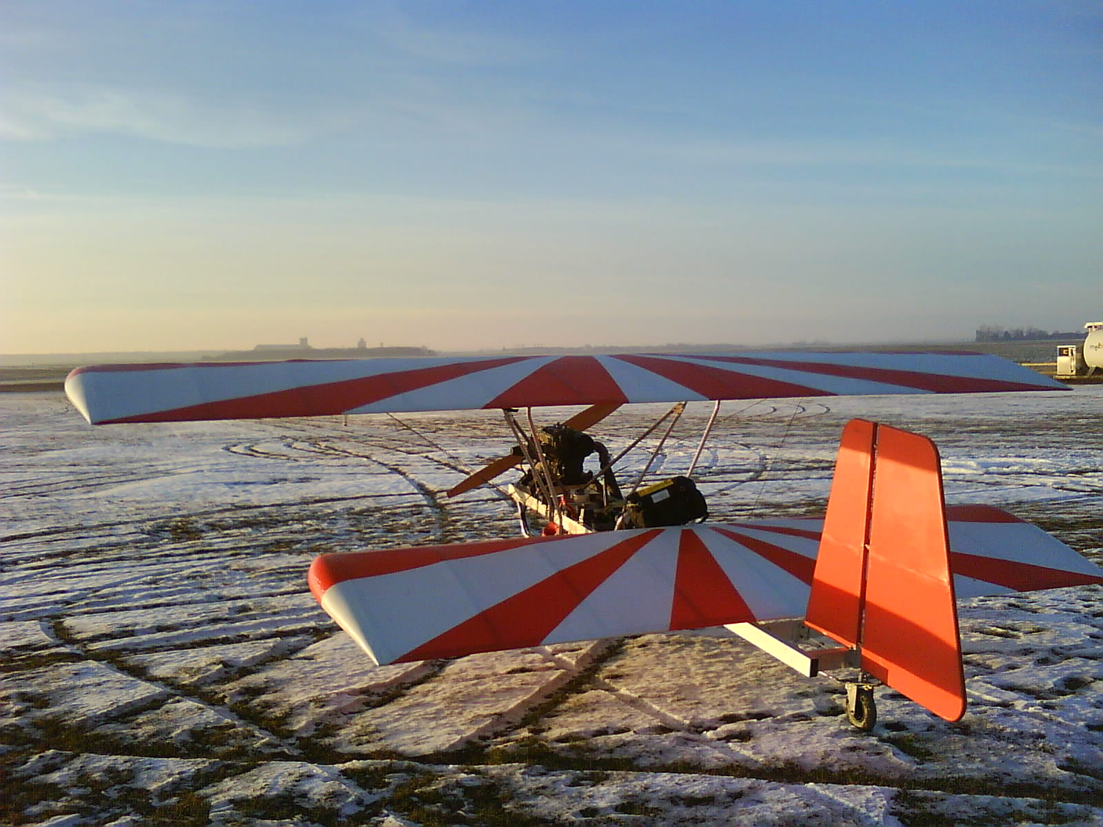 snowpouchel